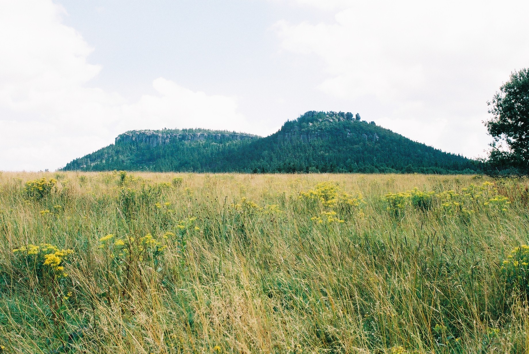 The Szczeliniec Mały mountain (foreground, right) with Szczeliniec Wielki (background, left). View from the West.